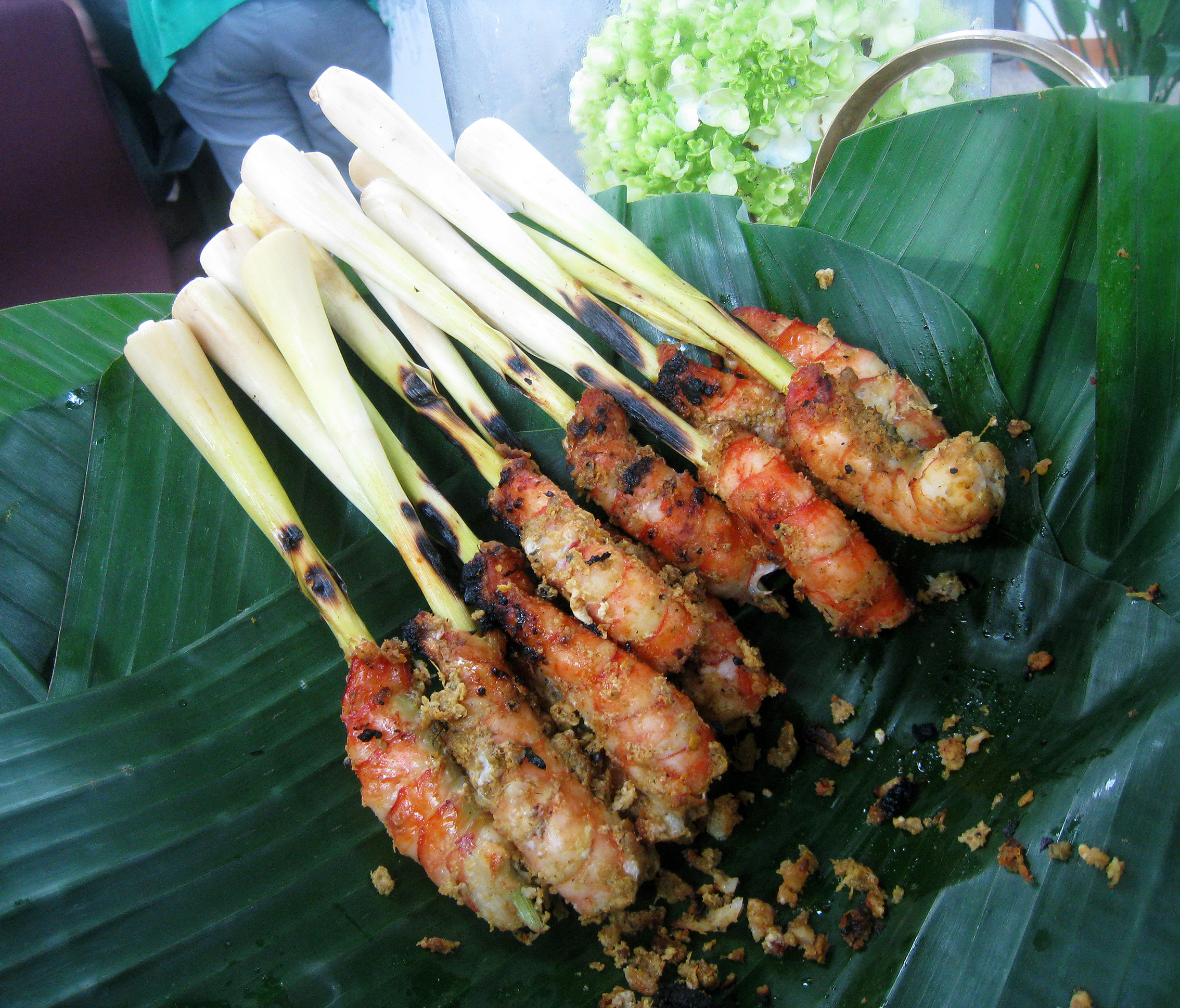 Sate Udang or shrimp satay with lemongrass stick handle. An Indonesian food in a buffet party in Jakarta, Indonesia.